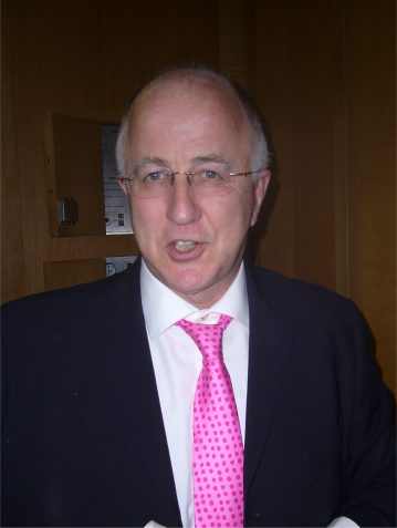 Denis MacShane MP. Picture taken in House of Commons, London, 6 February 2008